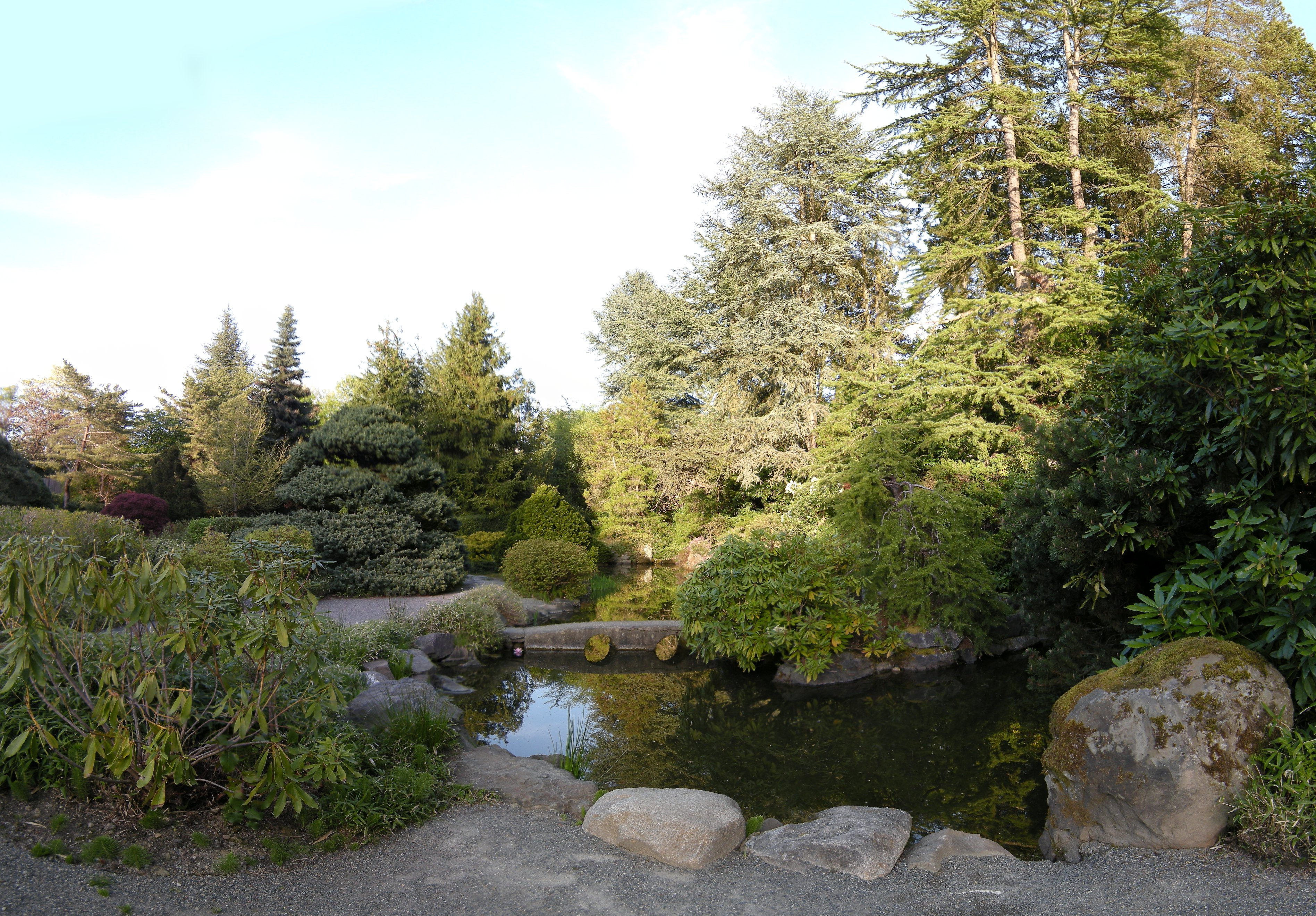 Fujitaro Kubota's original classic Japanese garden at Kubota Garden, Rainier Beach, Seattle, Washington.